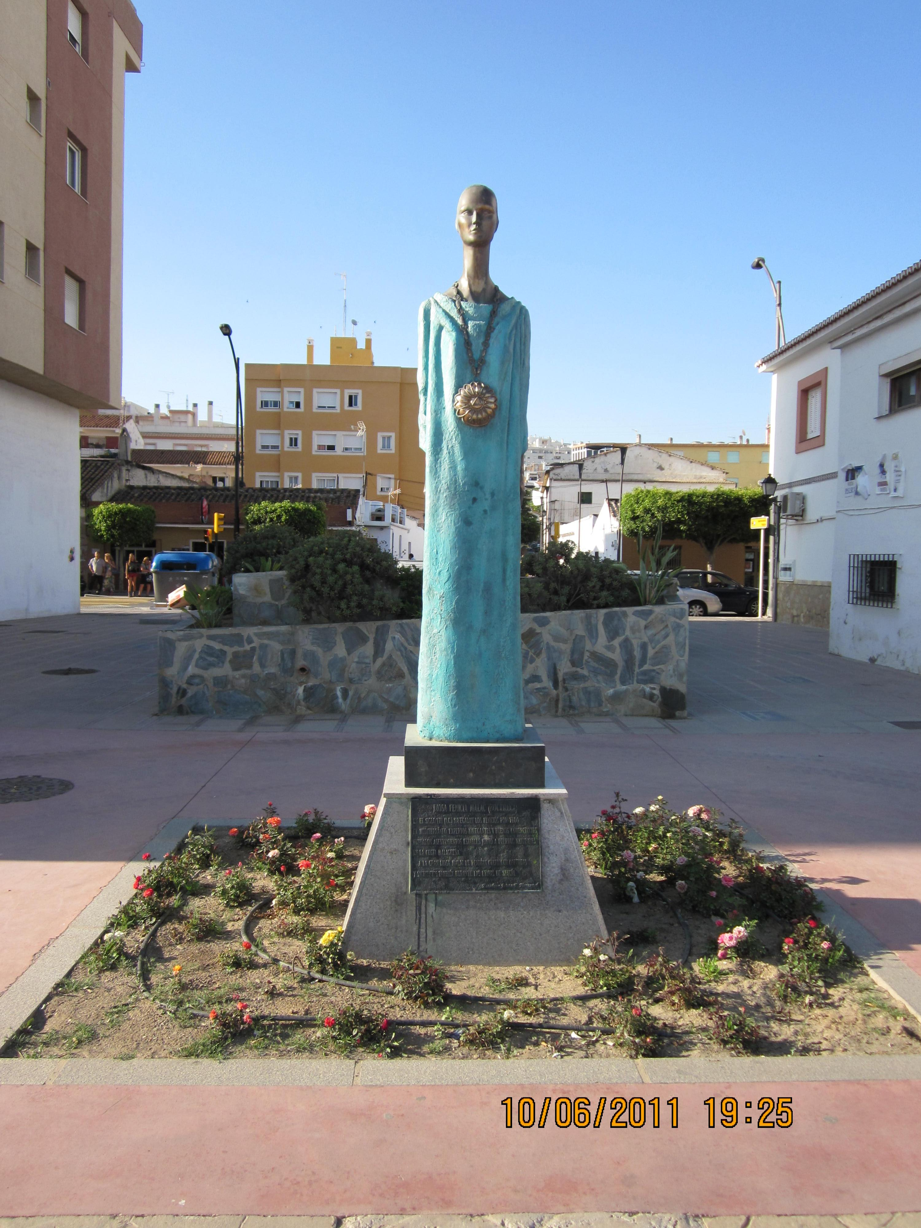 Statue of the Phoenician godess Malac (Noctiluca) in Rincón de la Victoria. Photo taken by Nihon-no-fan